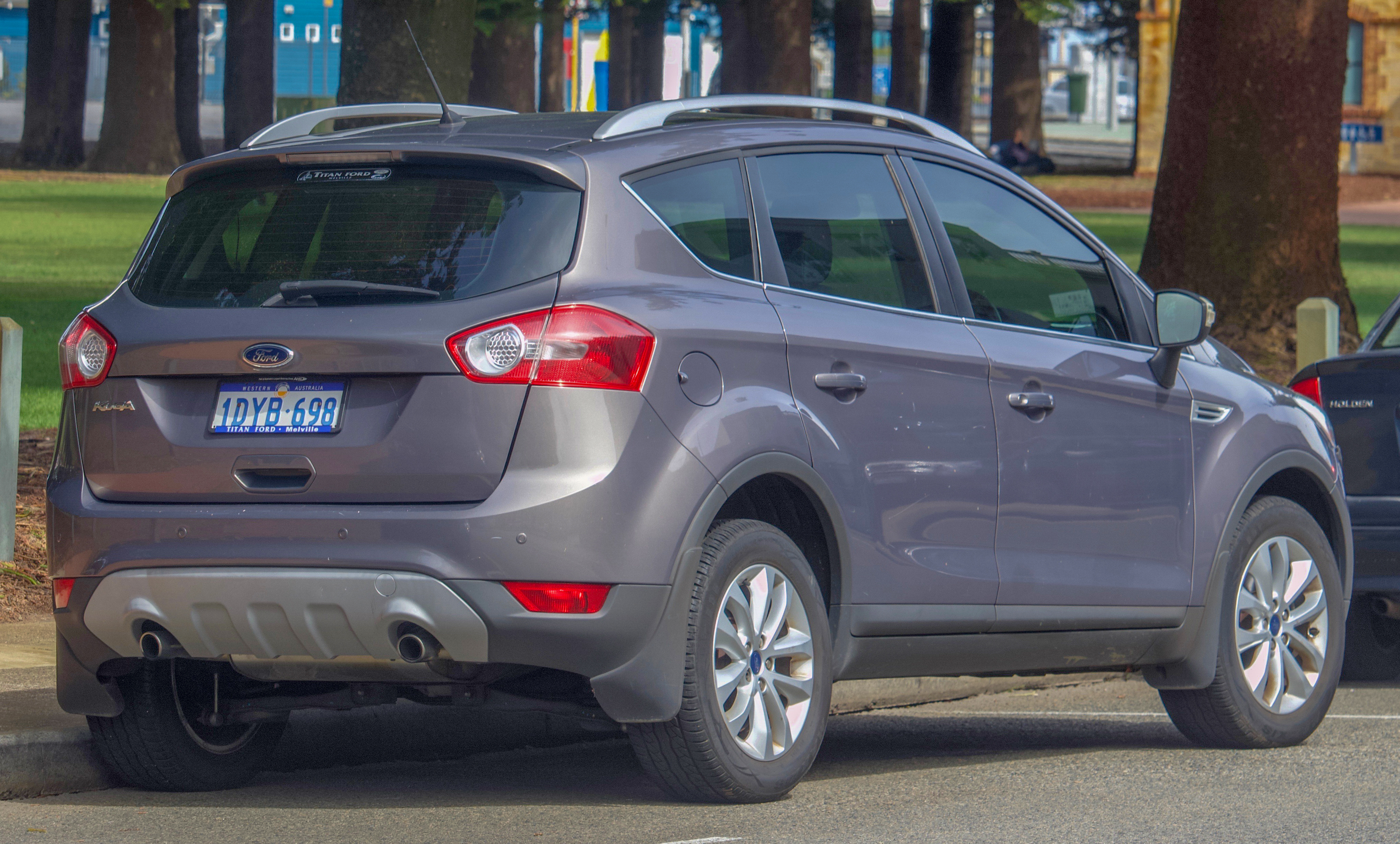 2012 Ford Kuga (TE) Trend AWD wagon. Photographed in Fremantle, Western Australia, Australia.